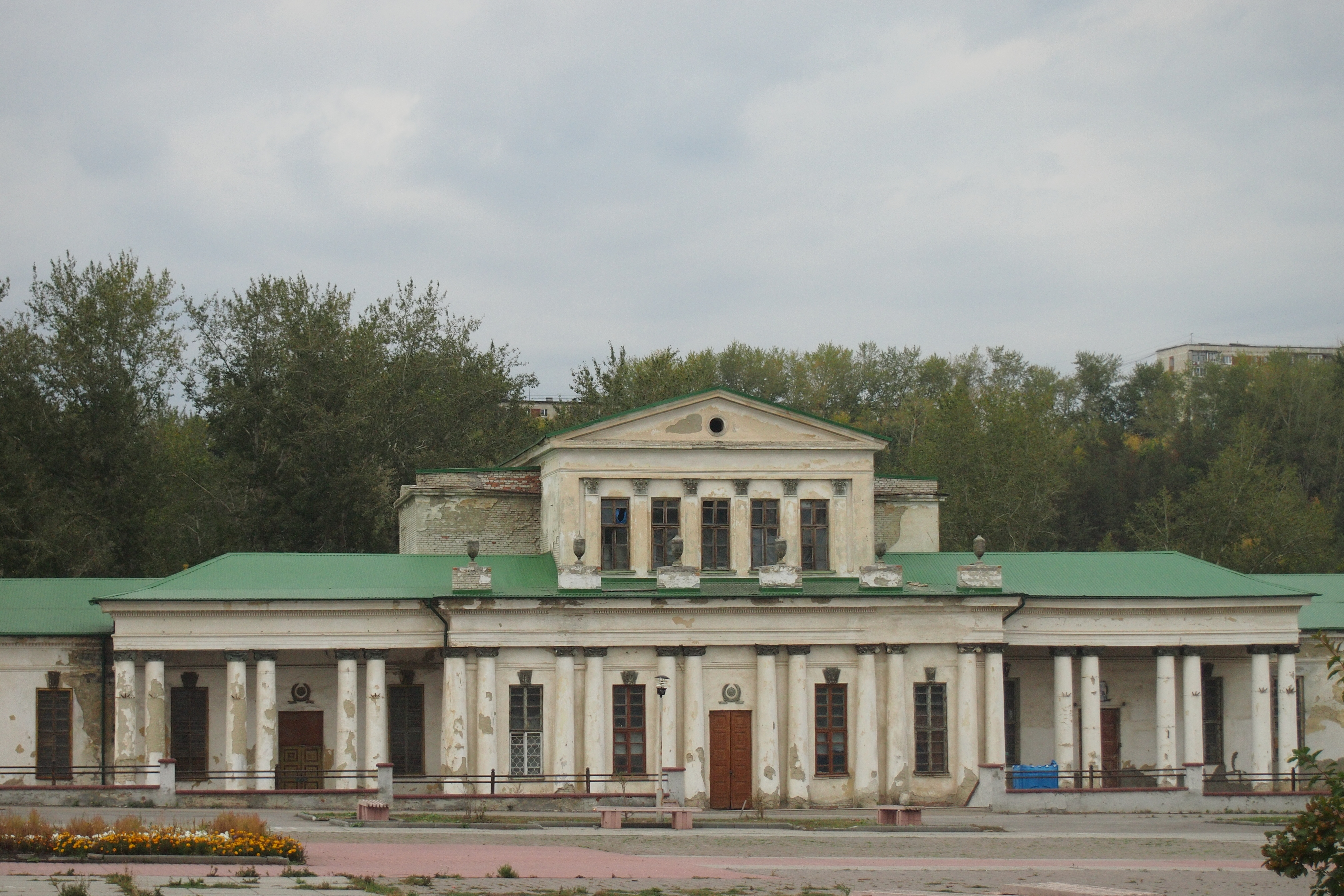 Warehouses plant in Kamensk-Uralsky, Sverdlovsk oblast, Russia